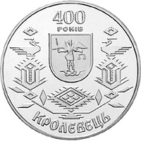 Coin of Ukraine